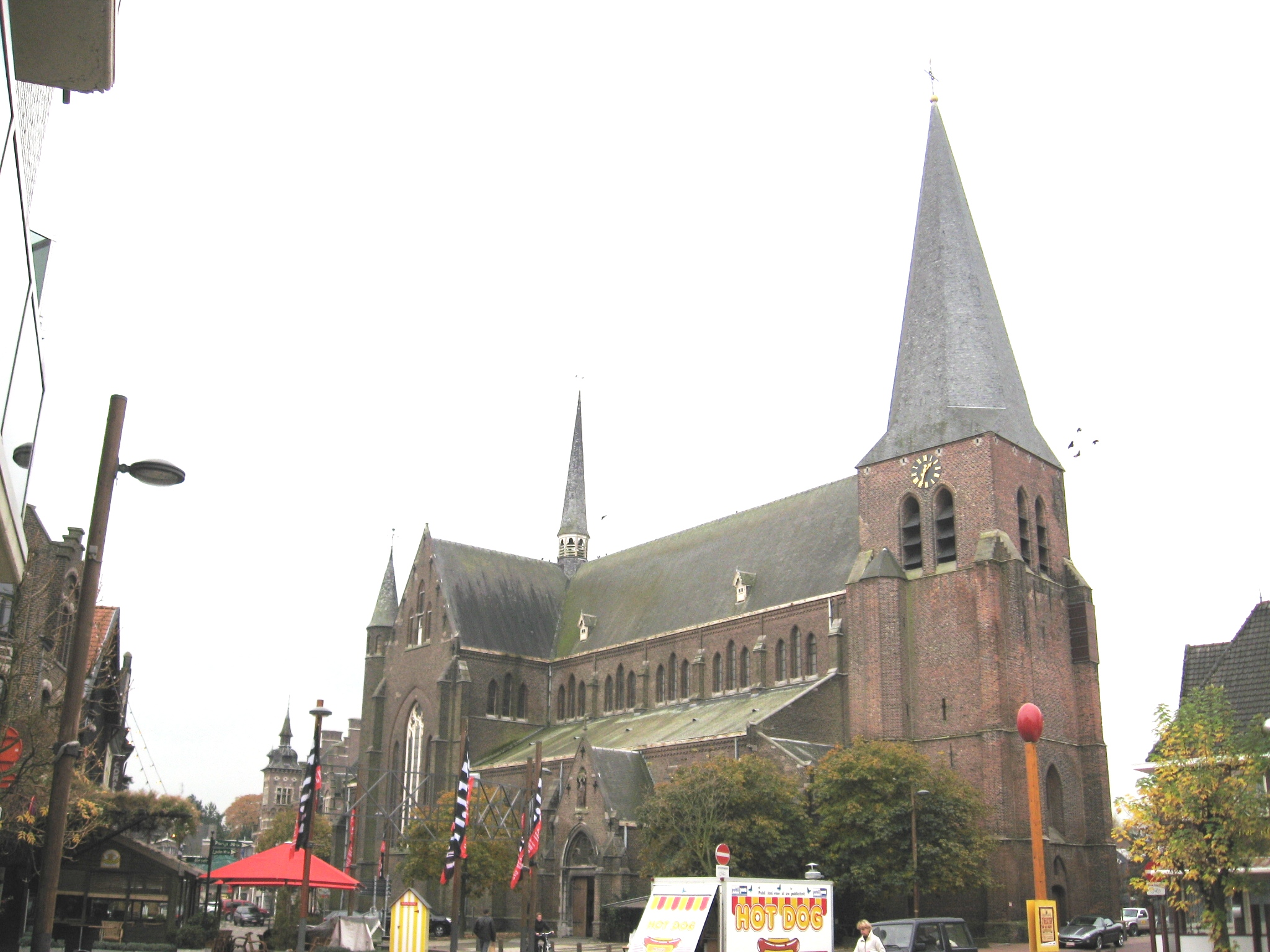 Church of Saint Nicolas in Neerpelt, Limburg, Belgium